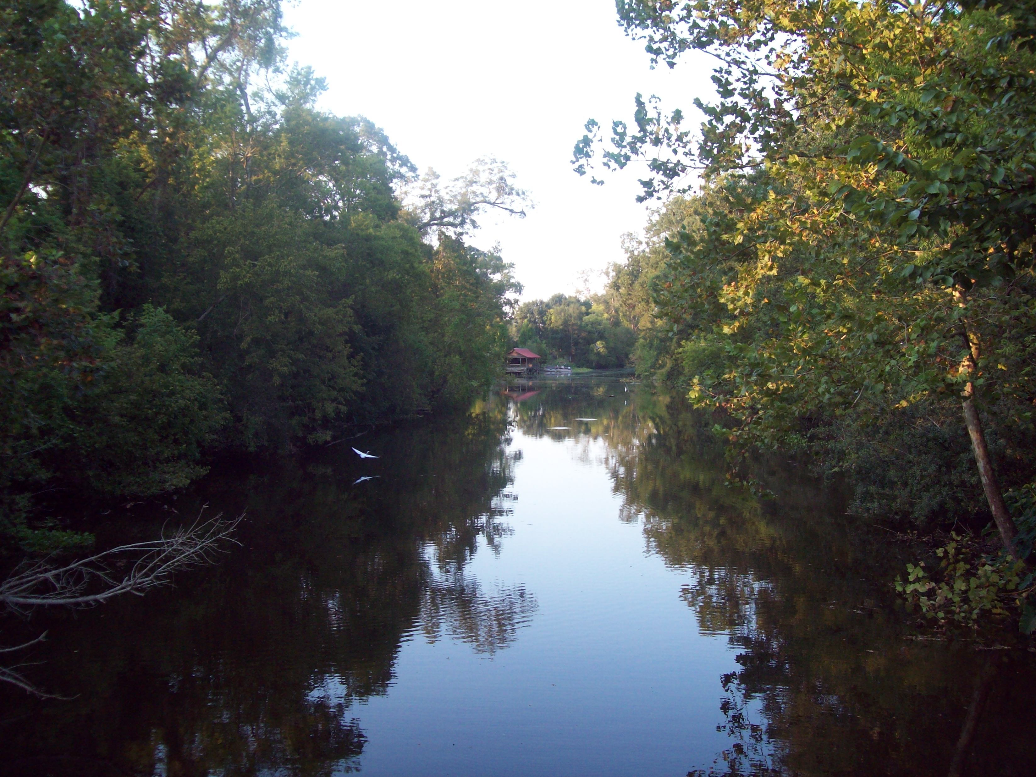 Scene along the Chenal, also known as the old Mississippi River channel.